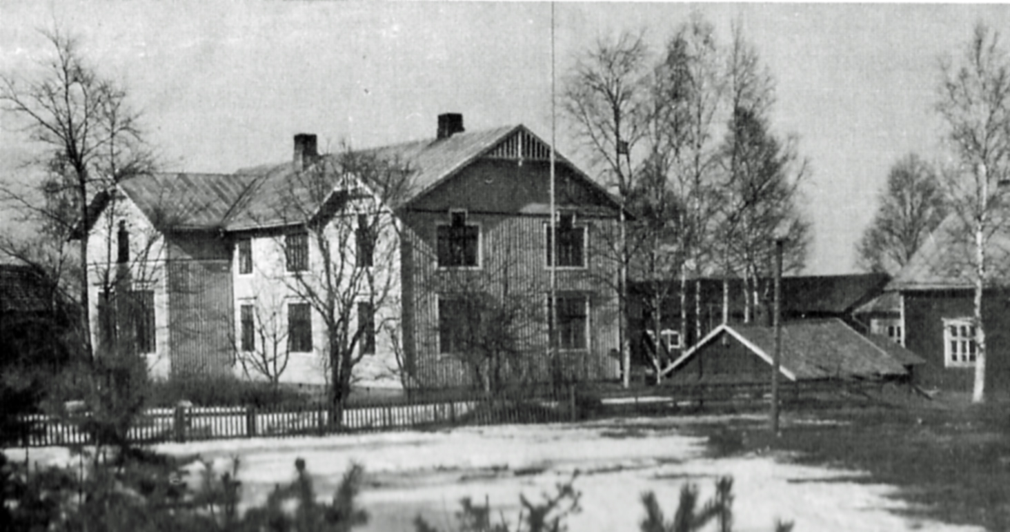 Harrin koulu, started 1904 as Jokipiin koulu, moved to this new building in 1907. Picture taken 1946.